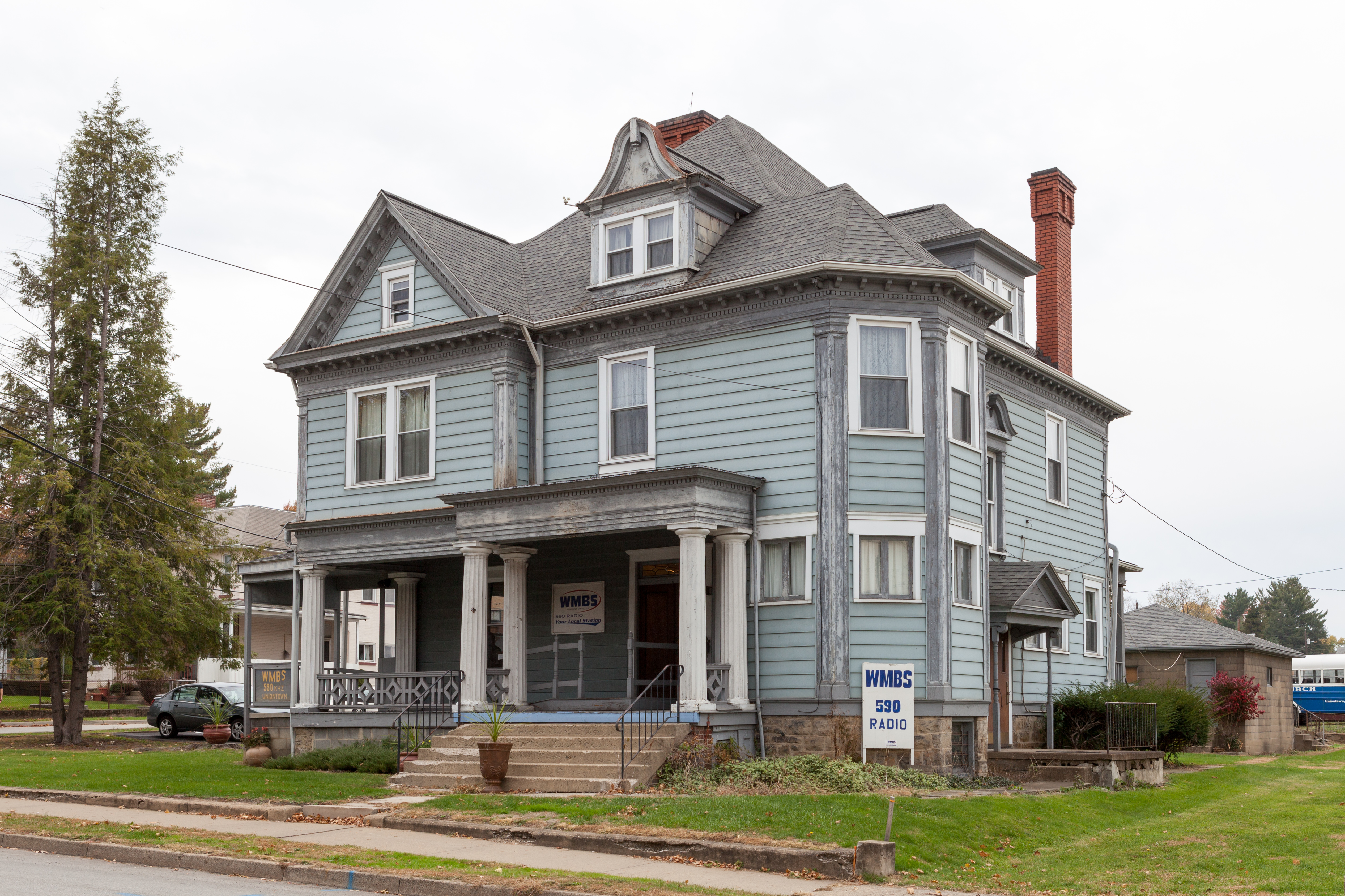 WMBS studio at 44 South Mount Vernon Avenue, Uniontown, Pennsylvania. Seen from the east.